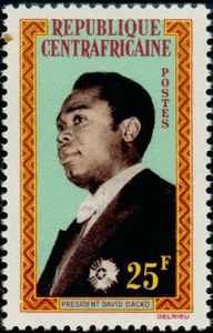 A Central African stamp of David Dacko.